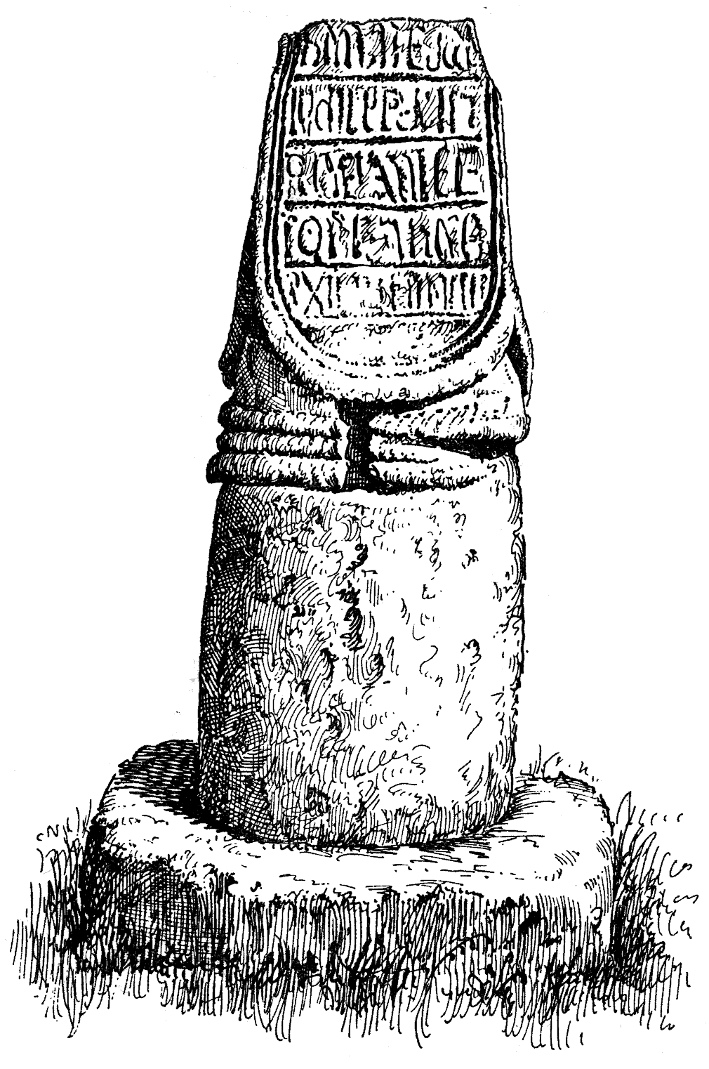 An ancient cross shaft stump in the churchyard of the "Low Church" of St. Bridget Beckermet, Cumbria, England, with runic inscription (of which no certain translation has been made).